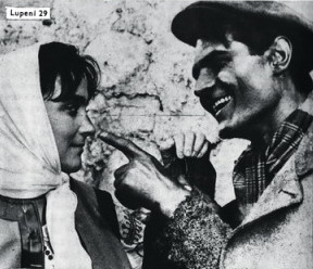 Romanian actress Lica Gheorghiu in „Lupeni 29” (1962)